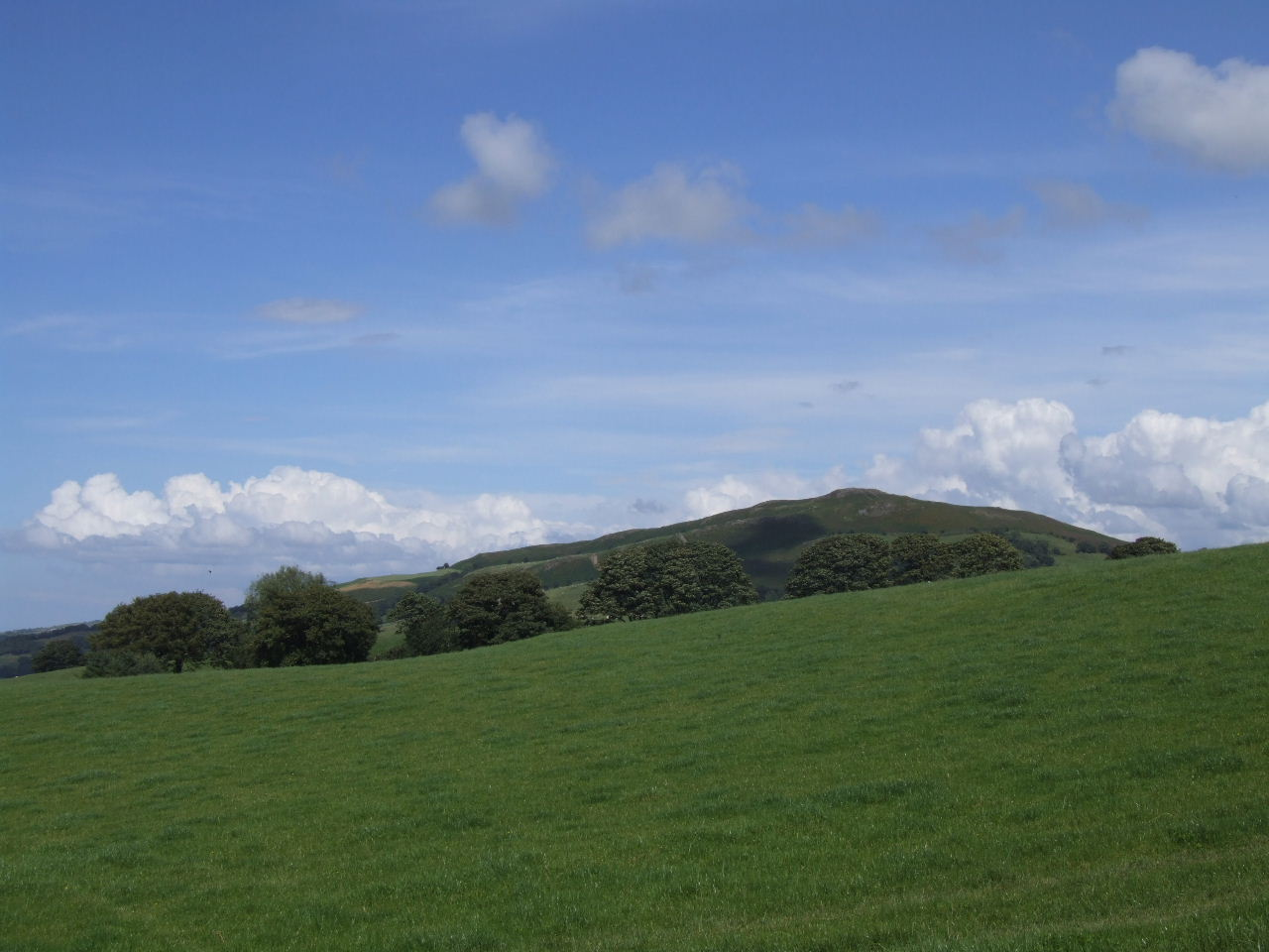 Moel Unben, a hill located near Llangernyw, Conwy County, Wales